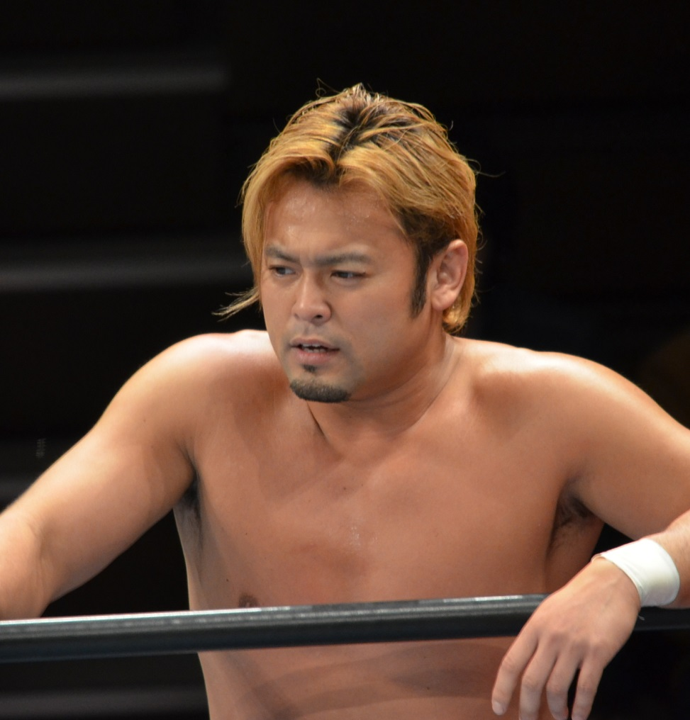 カズ・ハヤシ